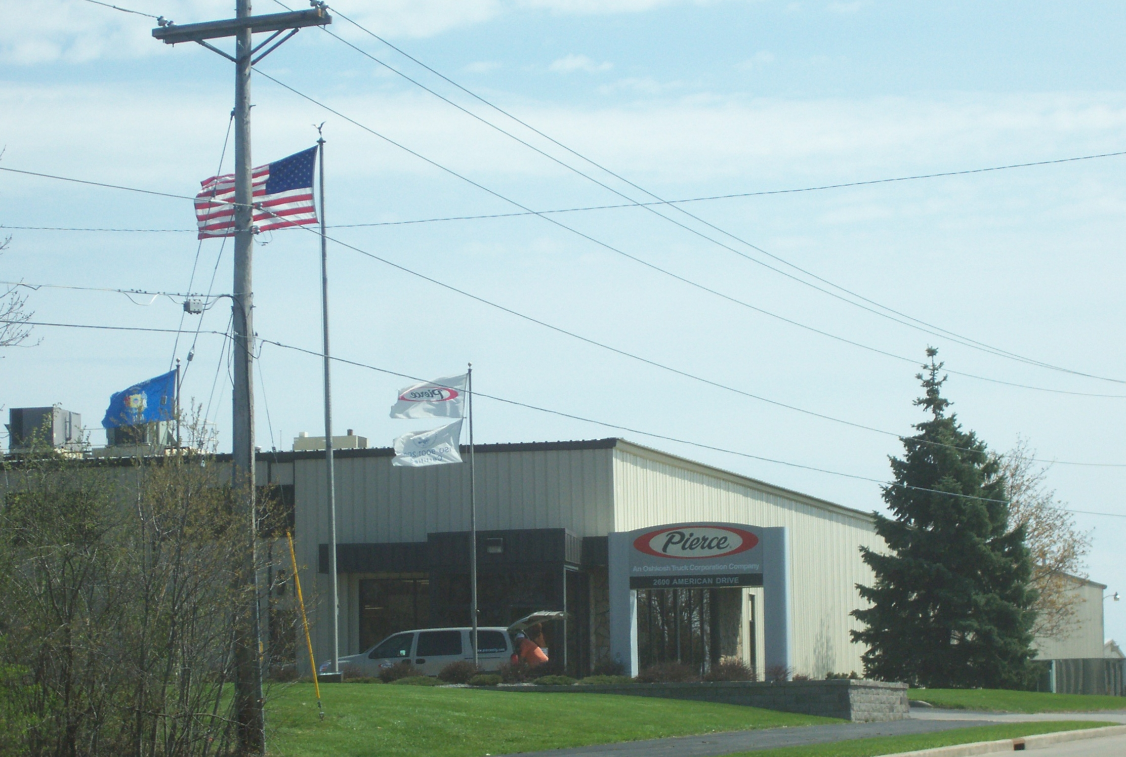 Looking at the Pierce Manufacturing headquarters in Appleton, Wisconsin.